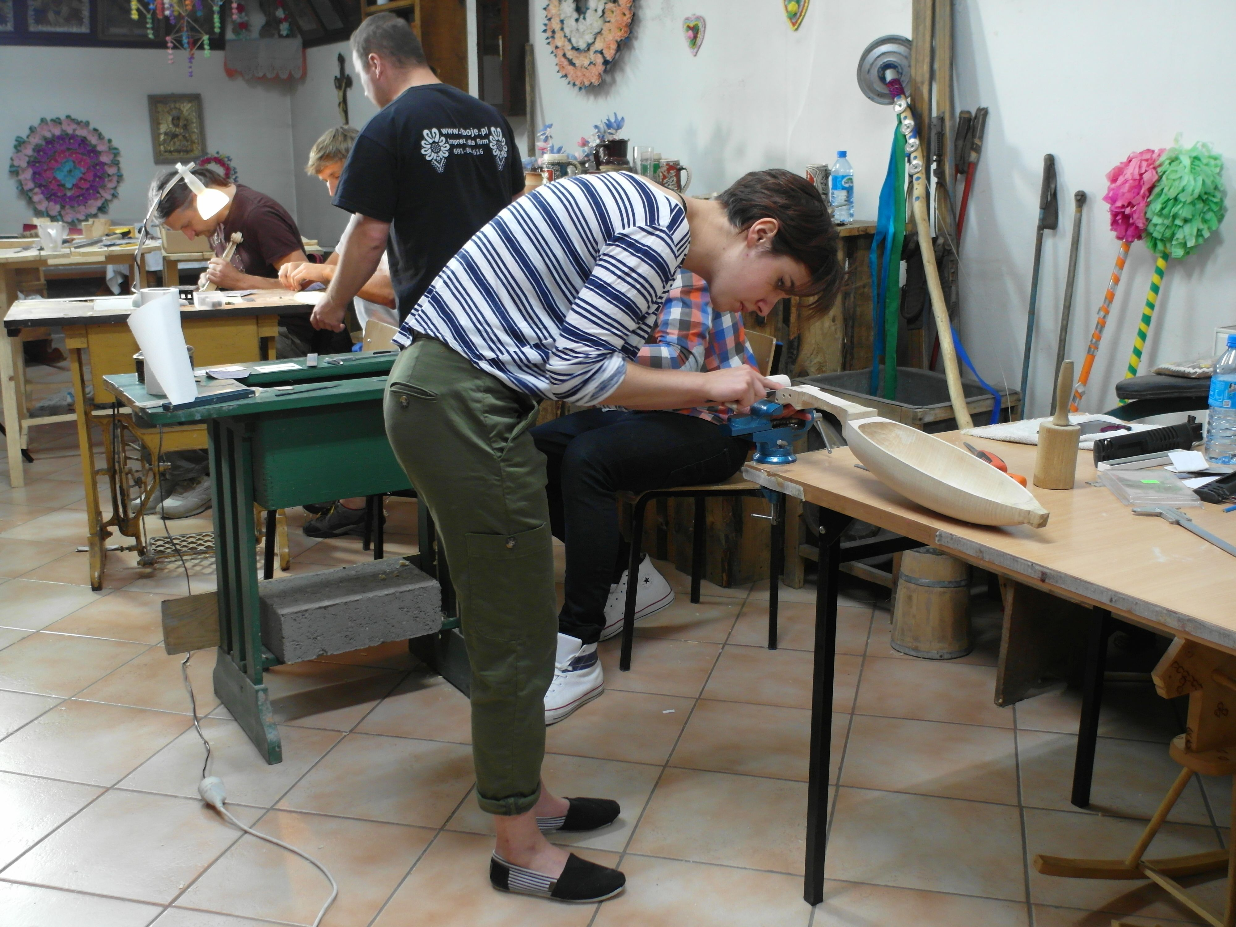 Folk musical instruments workshop, Żywiec Beskids